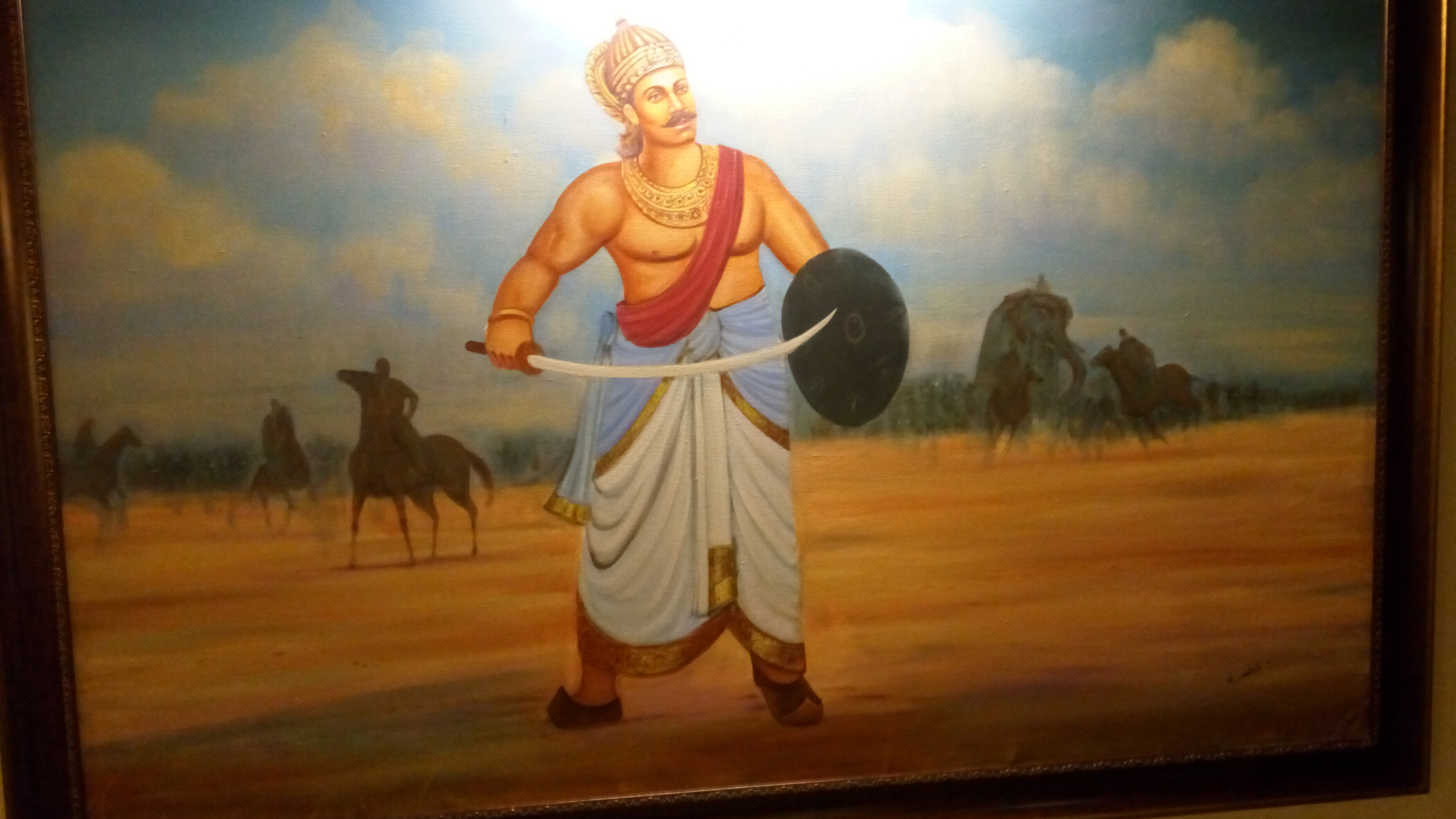 A painting of Emperor Rajendra Chola I. He was an emperor of the Chola Kingdom (of India), a powerful maritime mercantile empire based in present-day southern India. Styles, Honors, Titles: Parakesari, Yuddhamalla, Mummudi, Gangai Kondan, Kadaram Kondan, the Great Chola The painting is a part of National War Museum, Pune